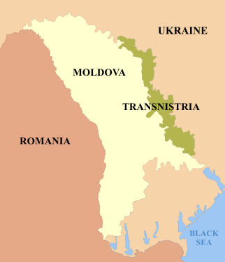 Category:Maps of Moldova Category:Maps of Transnistria